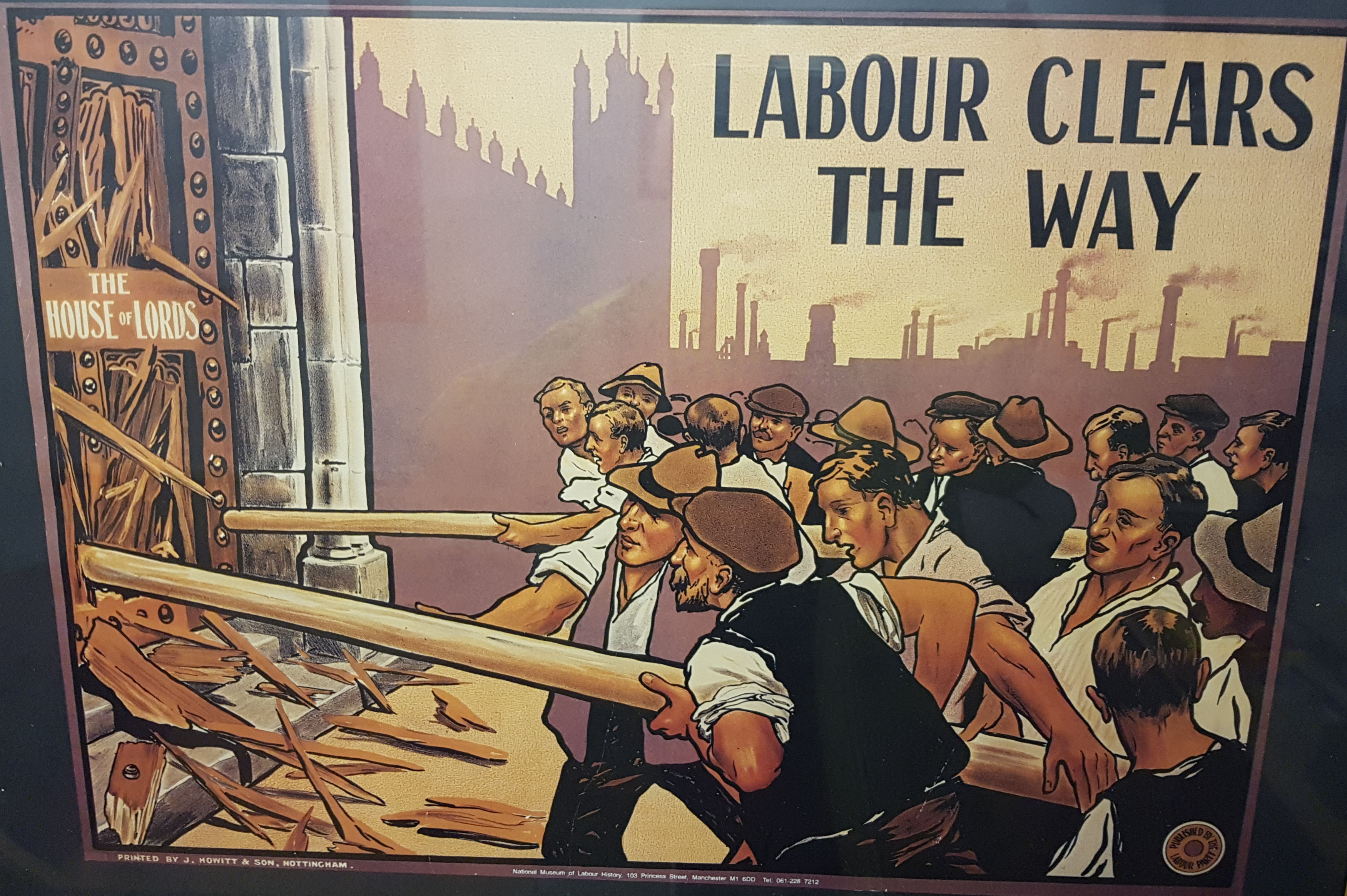 Poster in the National Museum of Labour History